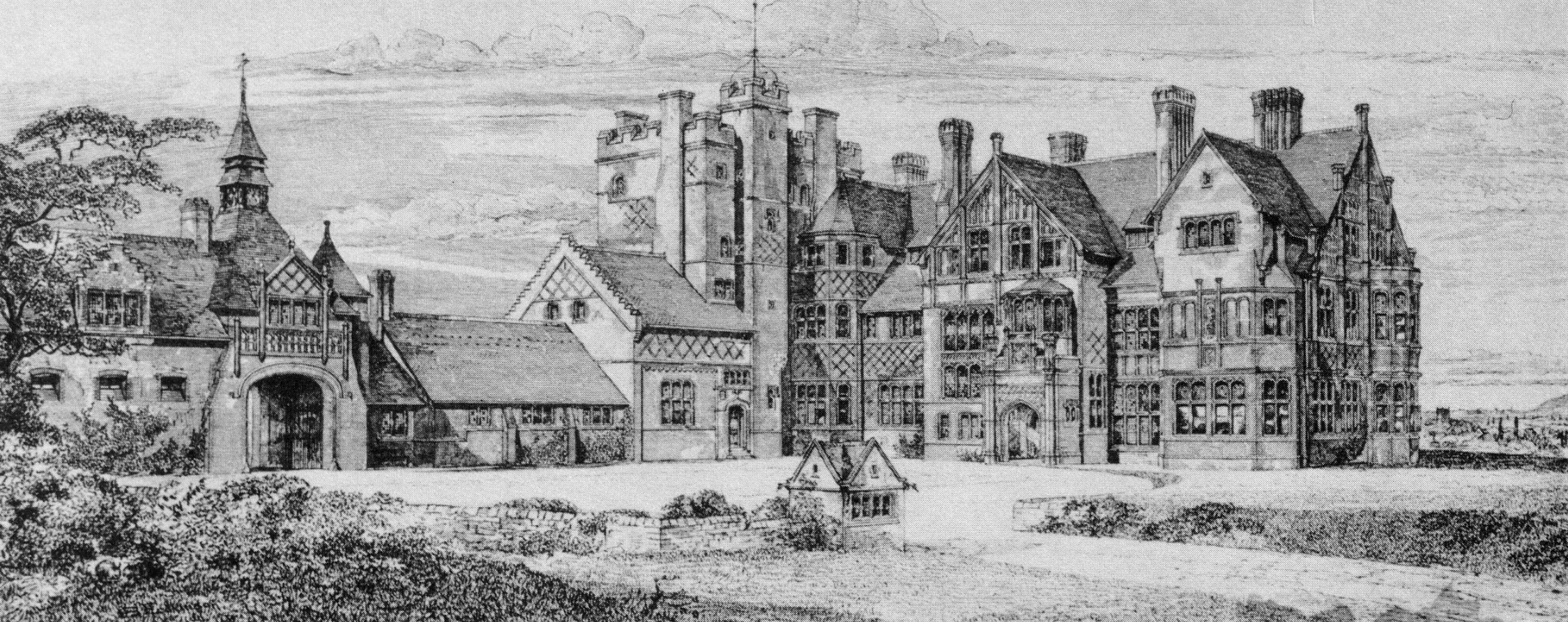 Scanned by the book by me. Taken from Building News, 41, 1881, p. 494